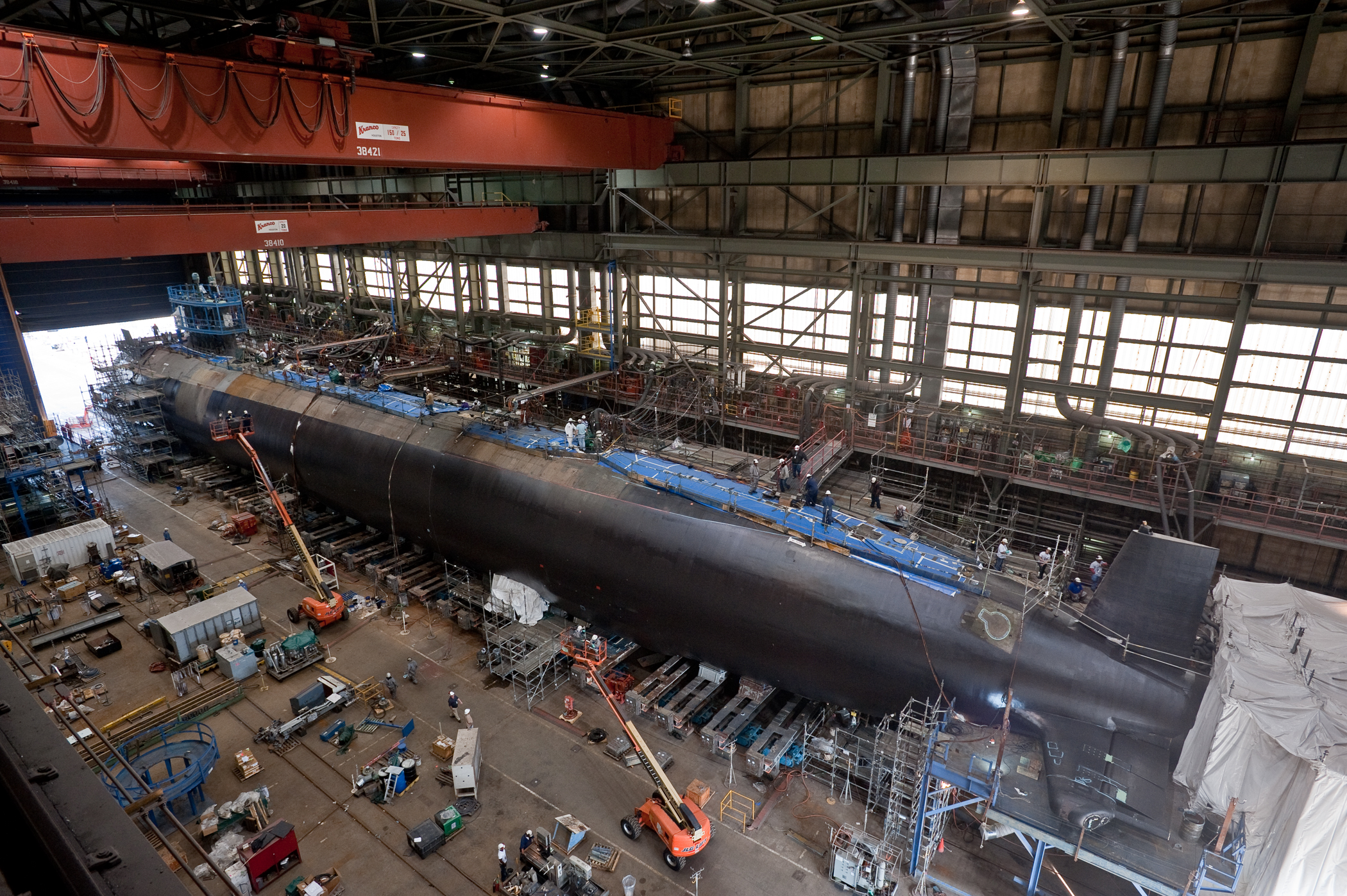 NEWPORT NEWS, Va. (Oct. 5, 2012) The Virginia-class attack submarine Pre-Commissioning Unit (PCU) Minnesota (SSN 783) under construction at Newport News Shipbuilding. The U.S. Navy is reliable, flexible, and ready to respond worldwide on, above, and below the sea. Join the conversation on social media using #warfighting. (U.S. Navy photo by Chris Oxley/Released) 121005-N-ZZ999-001 Join the conversation navylive.dodlive.mil